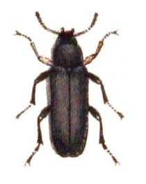 Anaspis frontalis, from Calwer's Käferbuch, Table 48, Picture 18. Taxonomy was updated to 2008, using mostly the sites Fauna Europaea and BioLib. Please contact Sarefo if the determination is wrong!